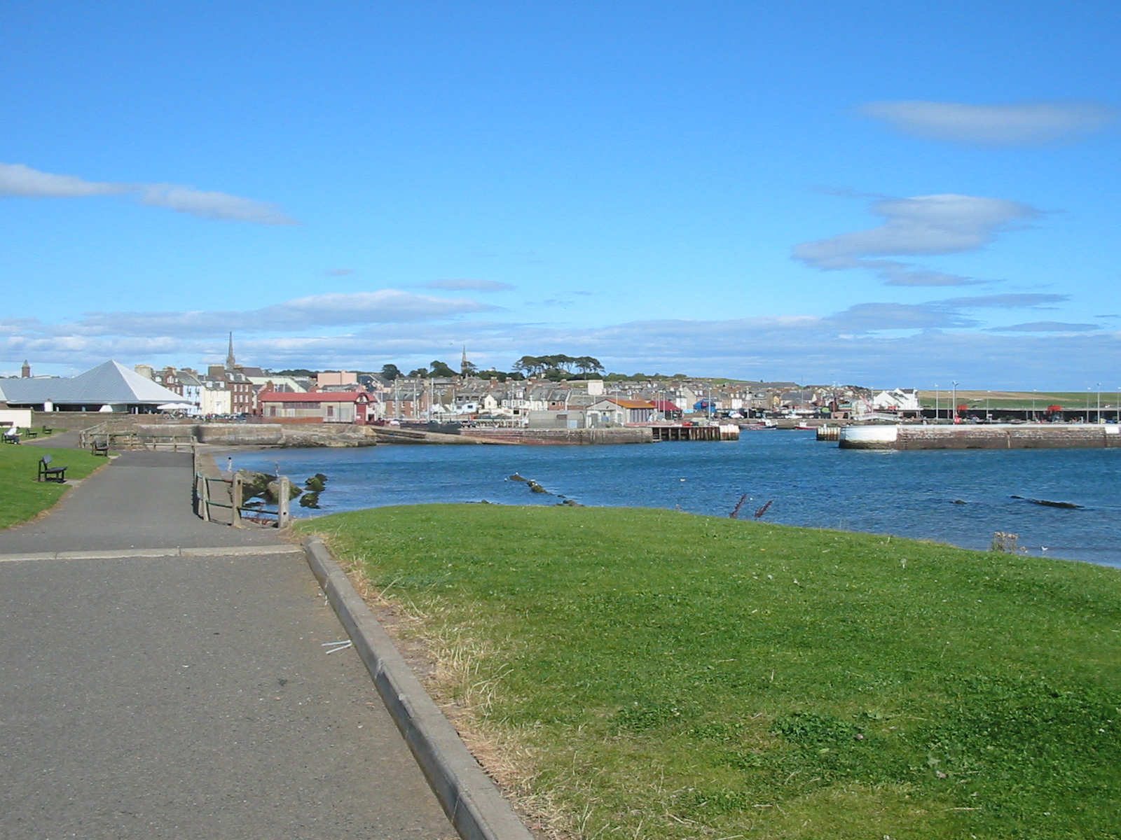 Arbroath